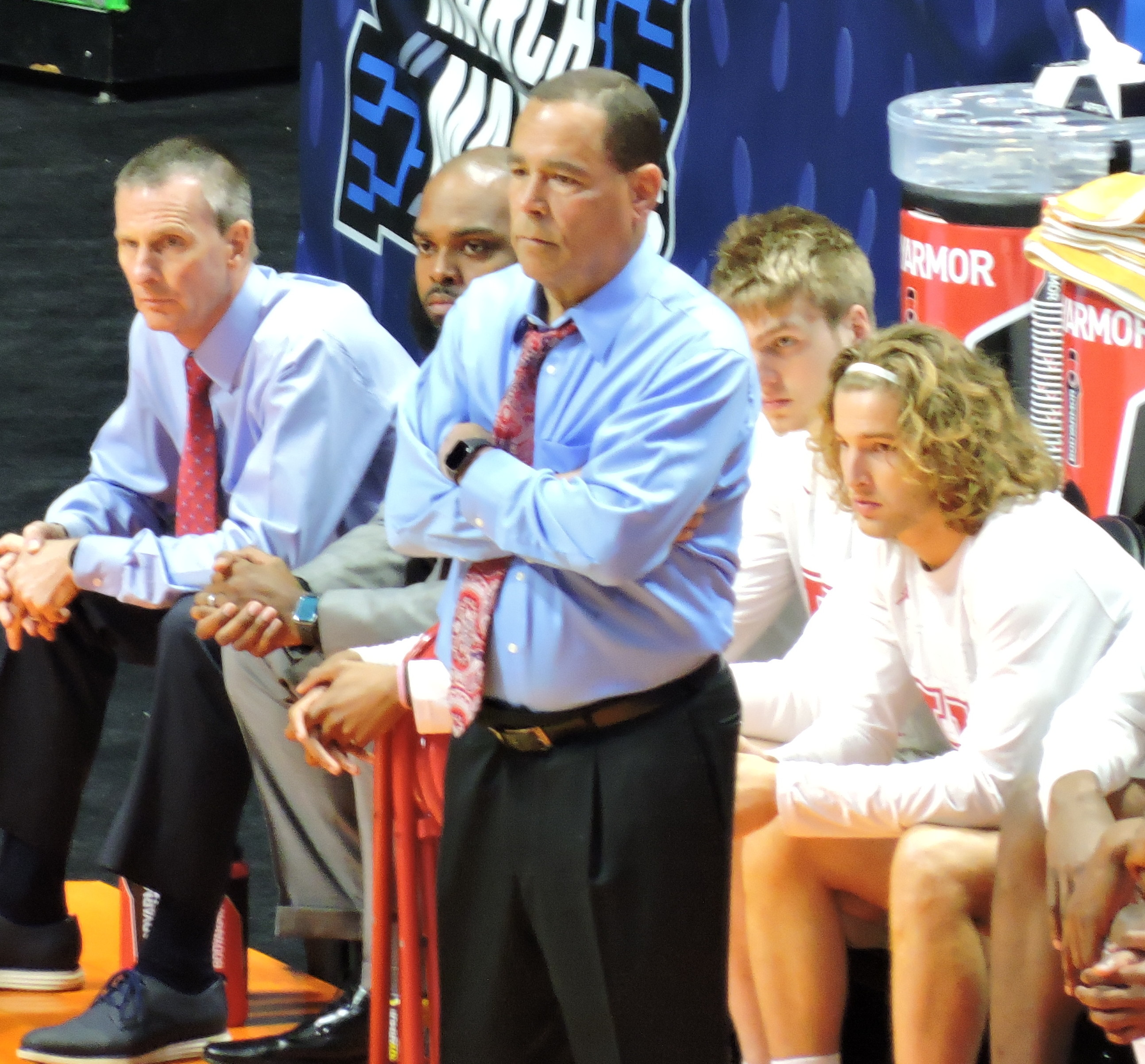 Houston Head Coach Kelvin Sampson on the sideline at the 2019 NCAA Basketball Tournament at the BOK Center in Tulsa, Oklahoma.